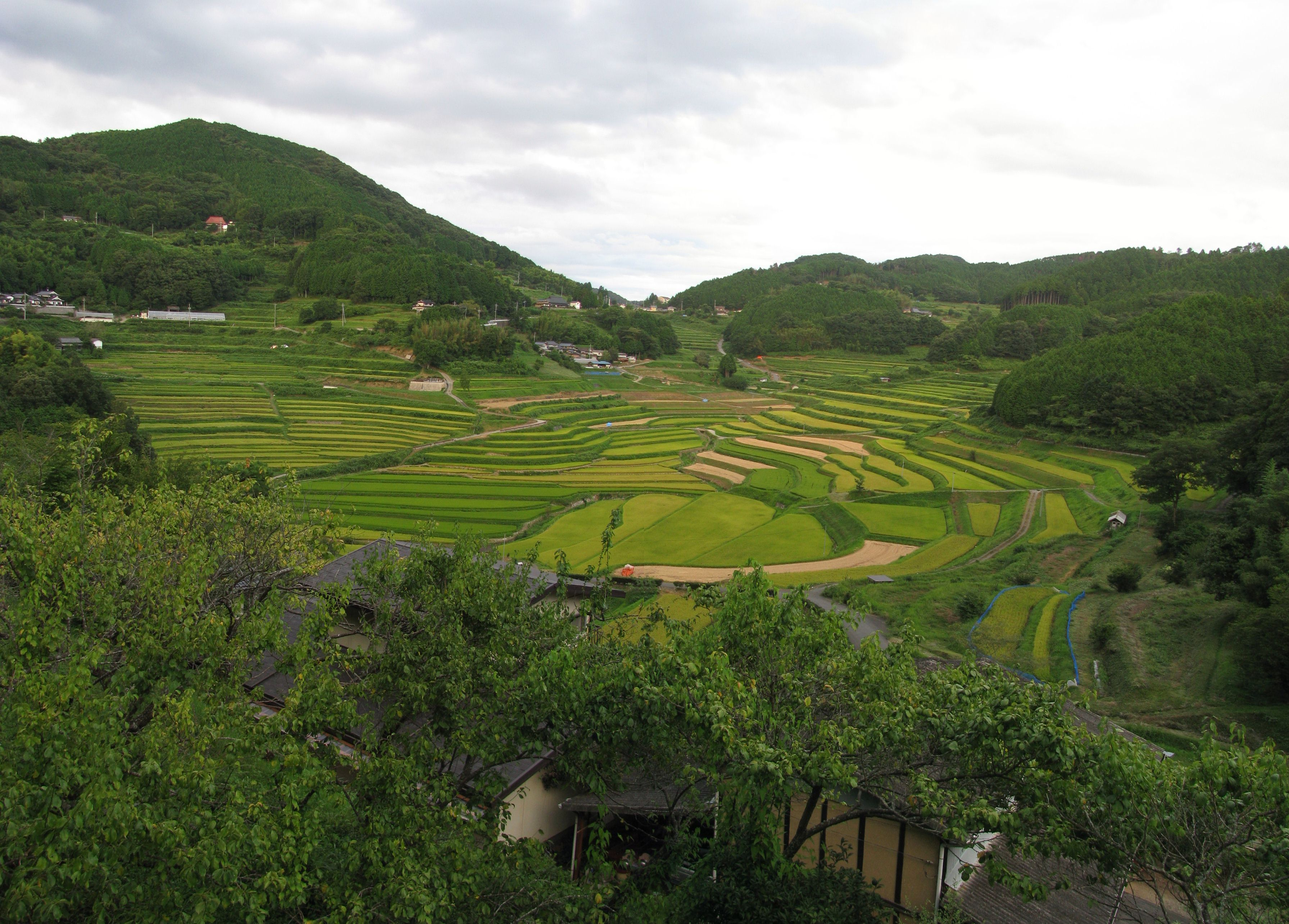 The Rice Terrace. This place is Ōhaga-nishi in Misaki, Kume District, Okayama, Japan.